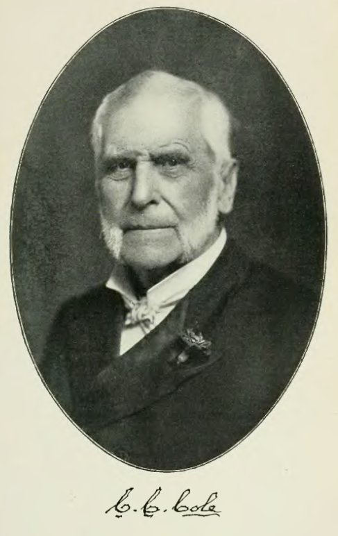 Portrait in History of Iowa From the Earliest Times to the Beginning of the Twentieth Century